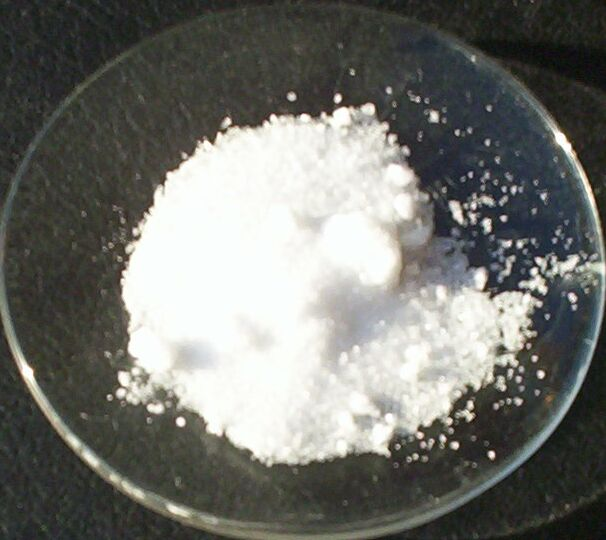 Picture of sodium bromide, taken by User:Walkerma, January 2006.